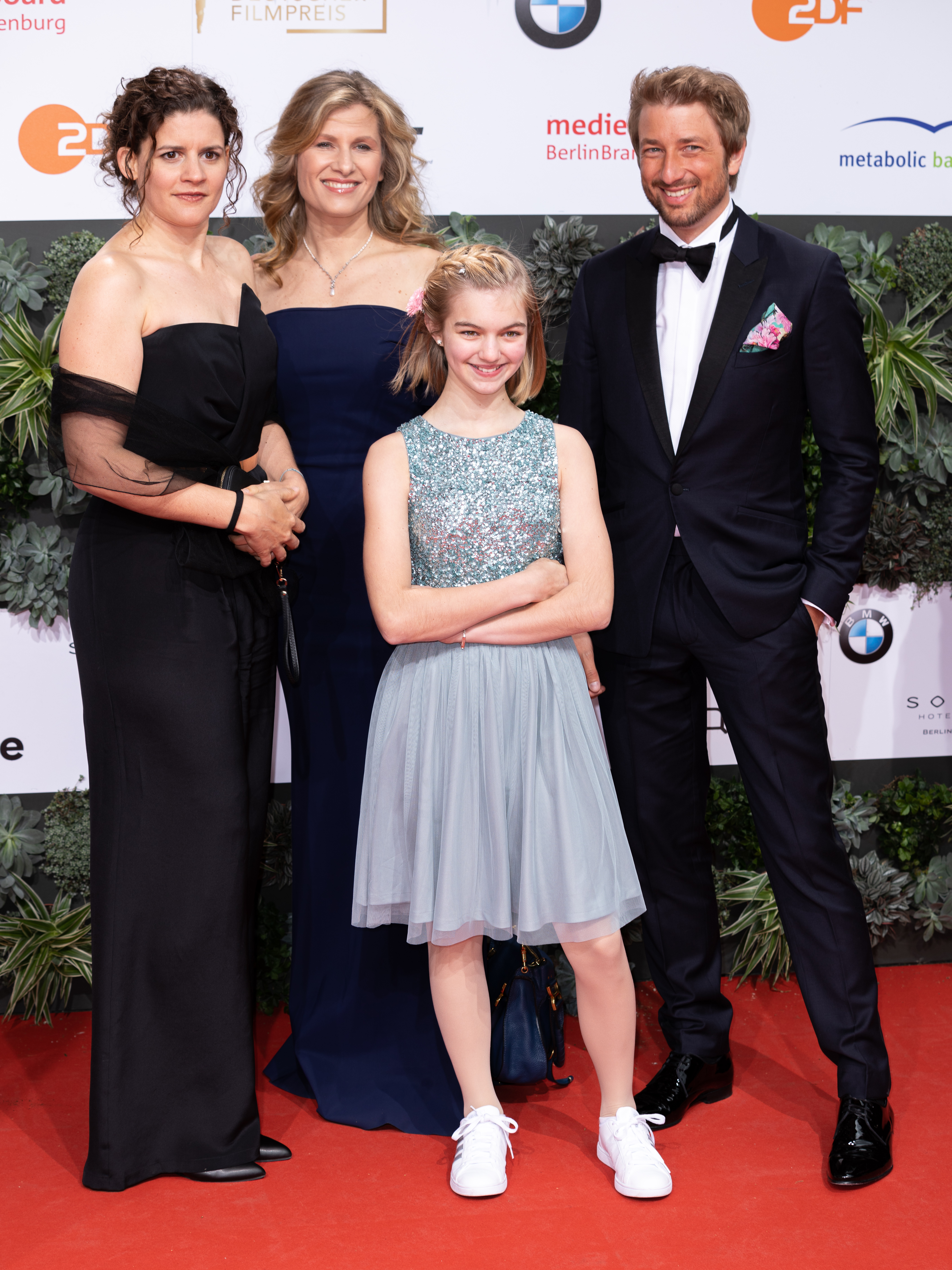 The film team of Rocca verändert die Welt on the red carpet of the German Film Award 2019, Palais am Funkturm, Berlin.